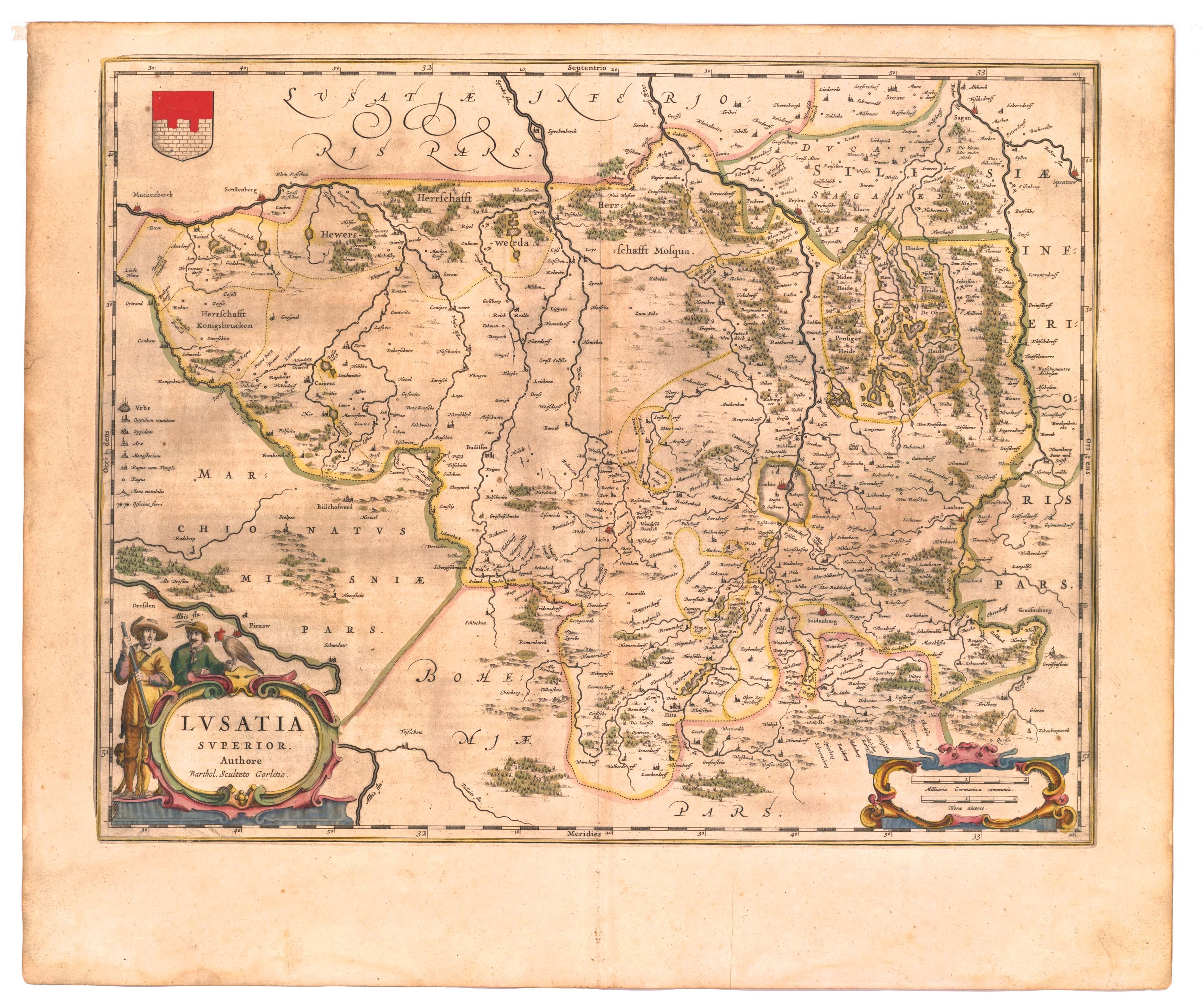 1645 map of Upper Lusatia